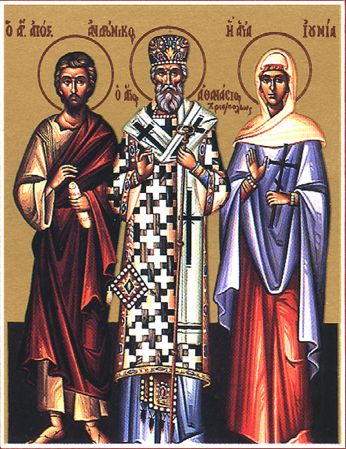 Icon with Andronicus of Pannonia, Saint Athanasius Bishop of Christianoupolis; and Saint Junia depicted.